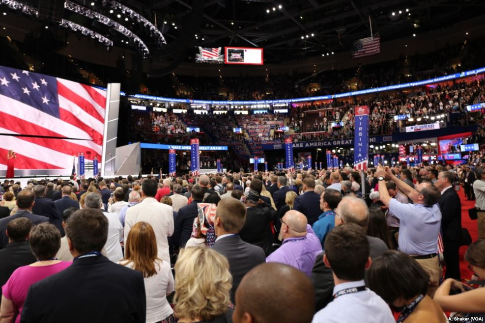 2016 RNC day 4